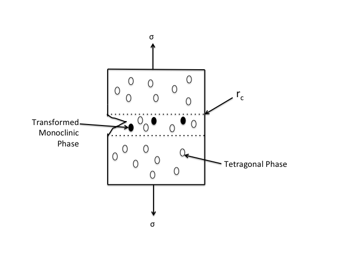 Visual representation of transformation toughened pure Zirconia. The crack induces a stress intensification that results in the transformation of some tetragonal particles into monoclinic phase particles that lie within the one rc zone.